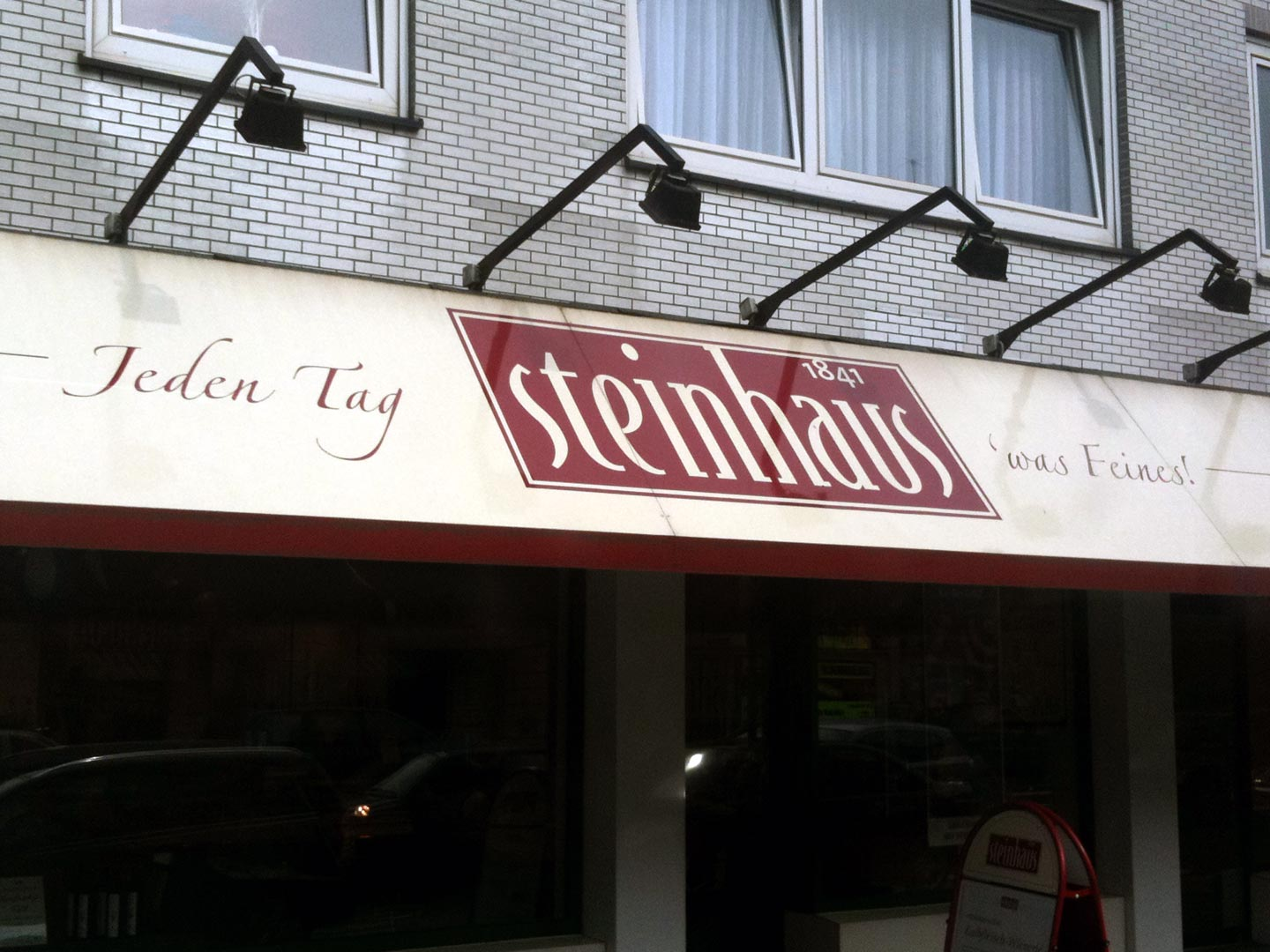 Zapfino at a bakery in Western Germany